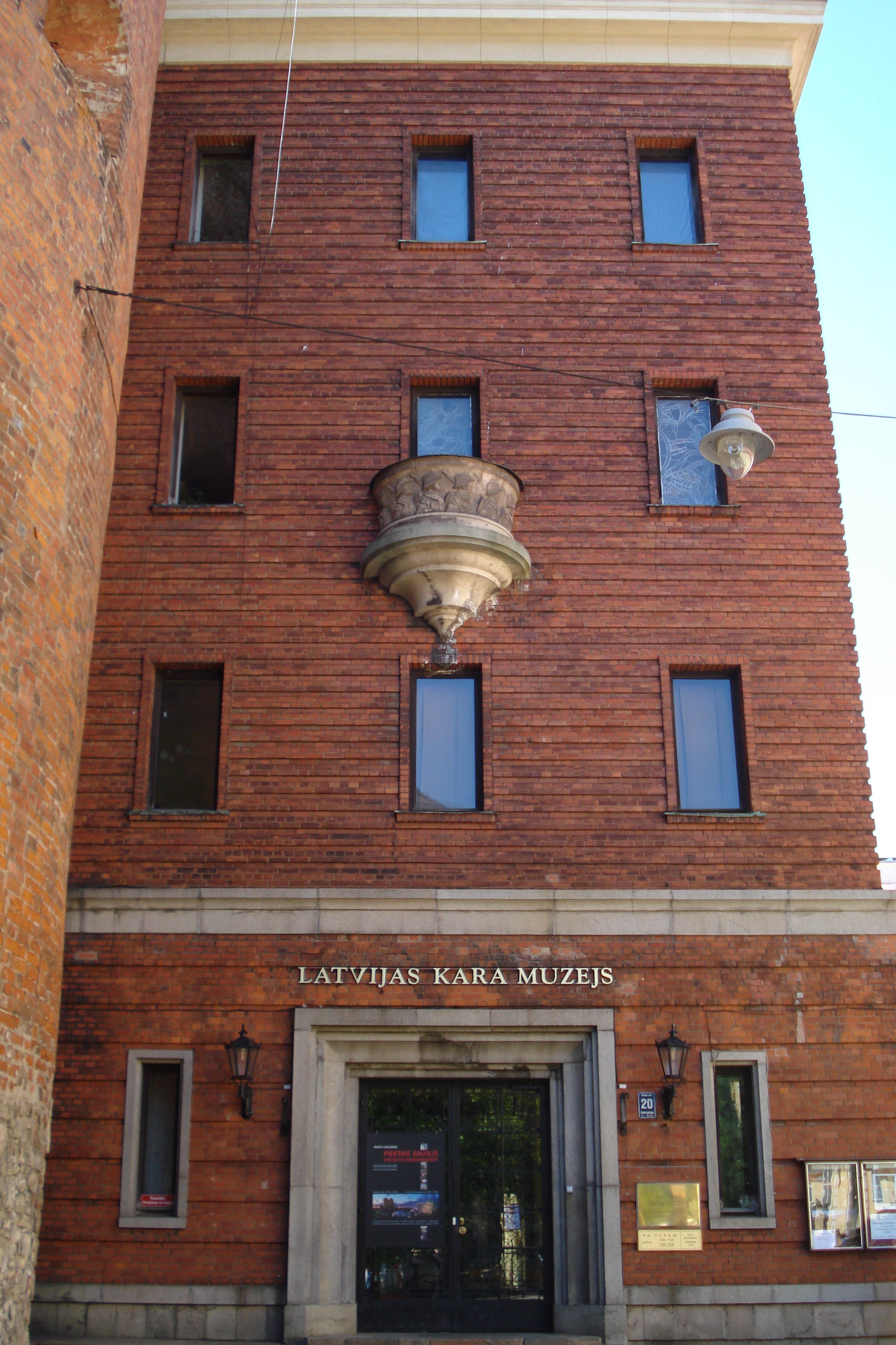 Latvian War Museum (located inside Gunpowder Tower) Smilšu iela 20. Latvijas Kara muzejs. The museum was founded in 1916 as the Latvian Riflemen's. The museum was closed by Soviet authorities in 1940 and was reopened in 1990. Kriegsmuseum Lettlands